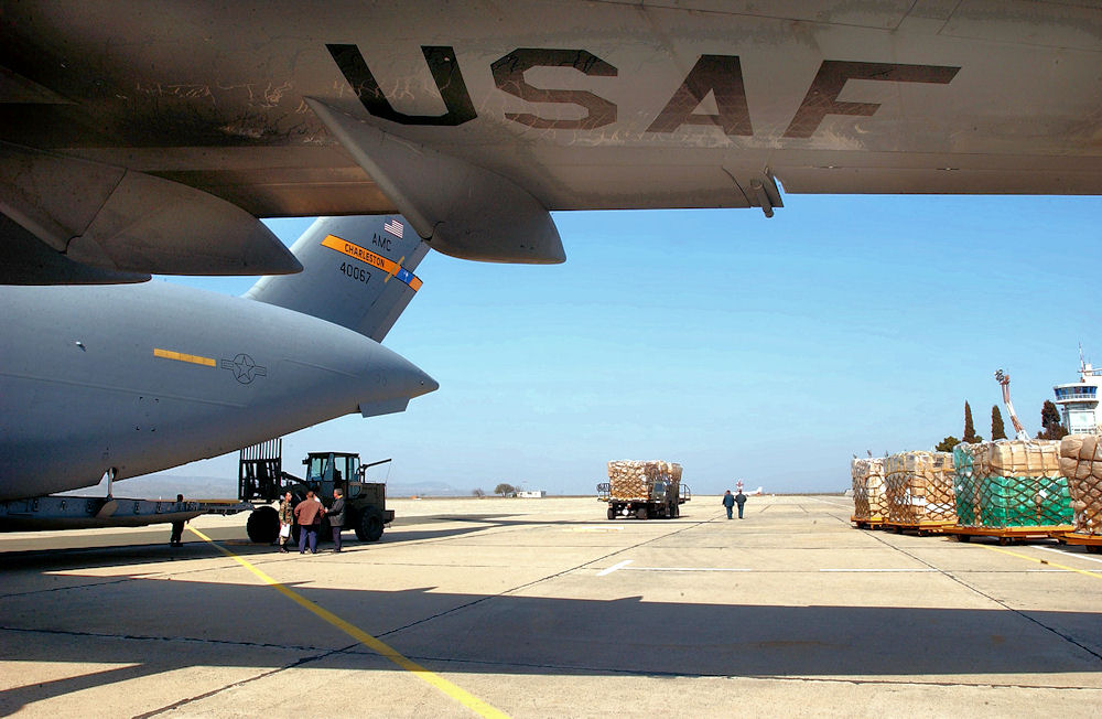 Airmen from the 409th Air Expeditionary Group, deployed to Camp Sarafovo, Bulgaria, palletize and load humanitarian cargo onto a C-17 Globemaster III from the 315th Airlift Wing of Air Force Reserve Command and the 437th Airlift Wing of Air Mobility Command at Charleston AFB, SC. The C-17 landed a Burgas Airport on its way to deliver humanitarian aid to the people of Iraq. KC-10 Extenders from the 305th Air Mobility Wing (AMC) and 514th Air Mobility Wing (AFRC), McGuire AFB, NJ, are deployed to Burgas Airport and nearby Camp Sarafovo, Bulgaria, to support tanker operations. Camp Sarafovo is home to the 409th Air Expeditionary Group, which is currently conducting air refueling operations with KC-10 Extender aircraft that have deployed to Burgas Airport while support operations are conducted from nearby Camp Sarafovo. Members from various Air Force units world-wide are currently deployed with the 409th AEG in support of Operation Iraqi Freedom.